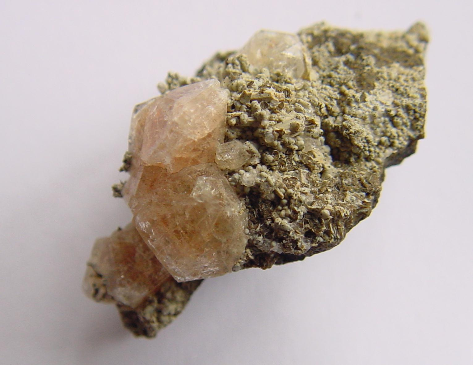 Gmelinite from Flinders, Victoria, Australia